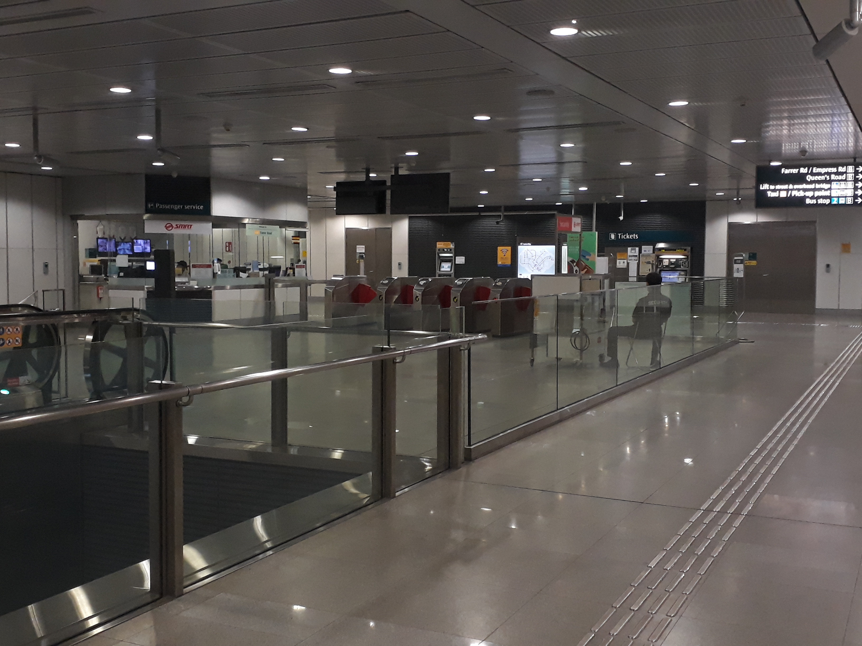 Concourse level of Farrer Road